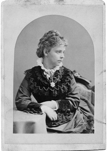 Alice Morse in 1873, aged 22.